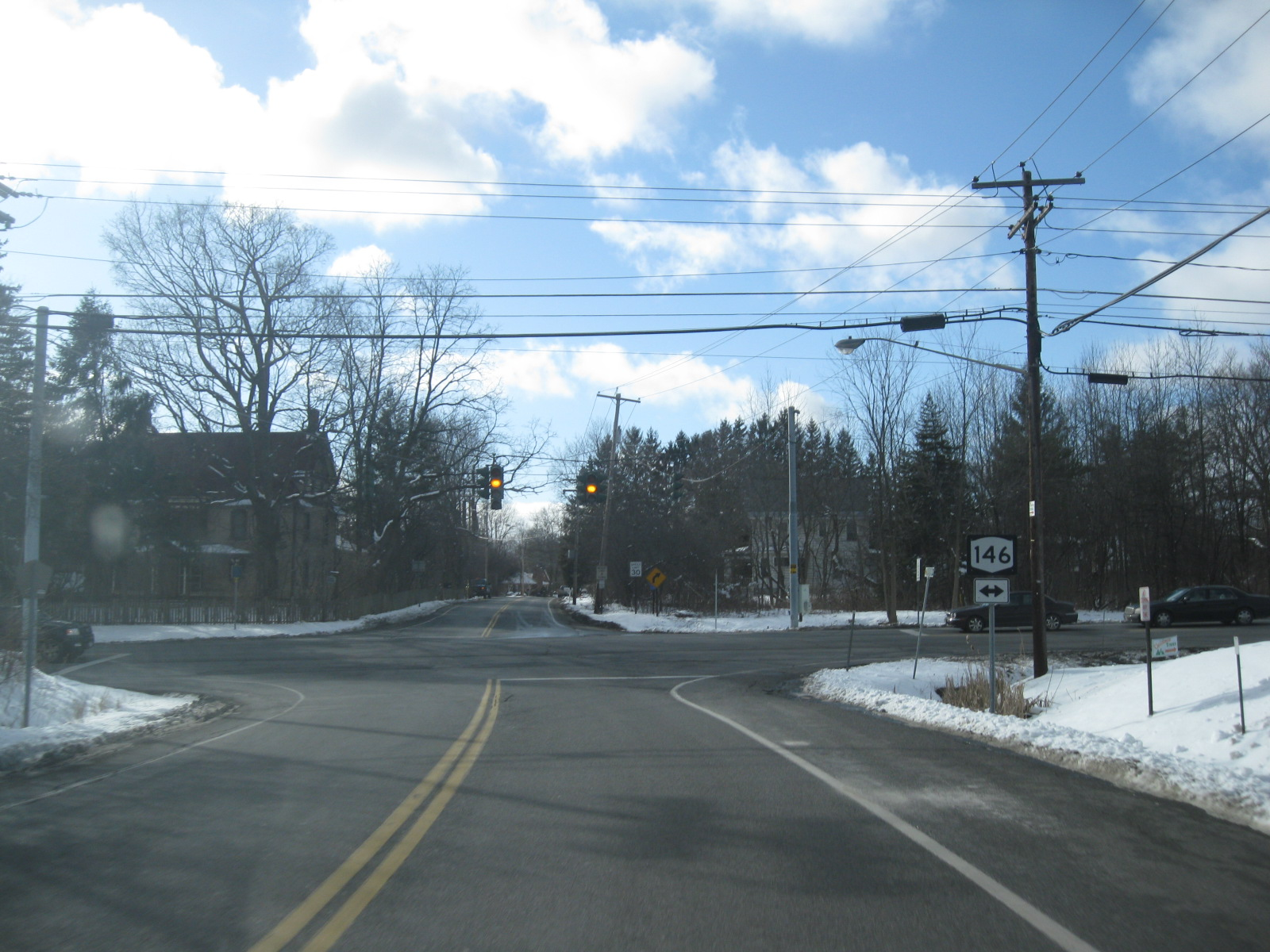 Saratoga County Route 91 (Former New York State Route 146B) at the intersection with New York State Route 146 in Rexford. County Route 88 begins across the traffic light.